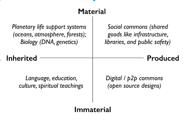 Four types of commons